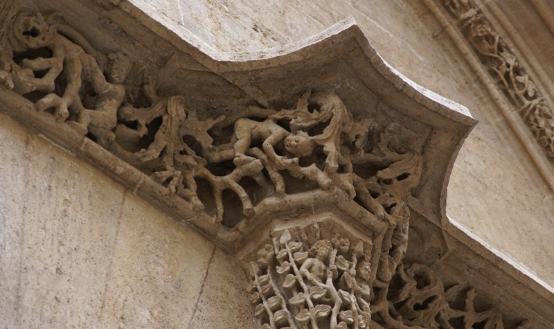 La Lonja de la Seda, Valencia, Spain - decorations